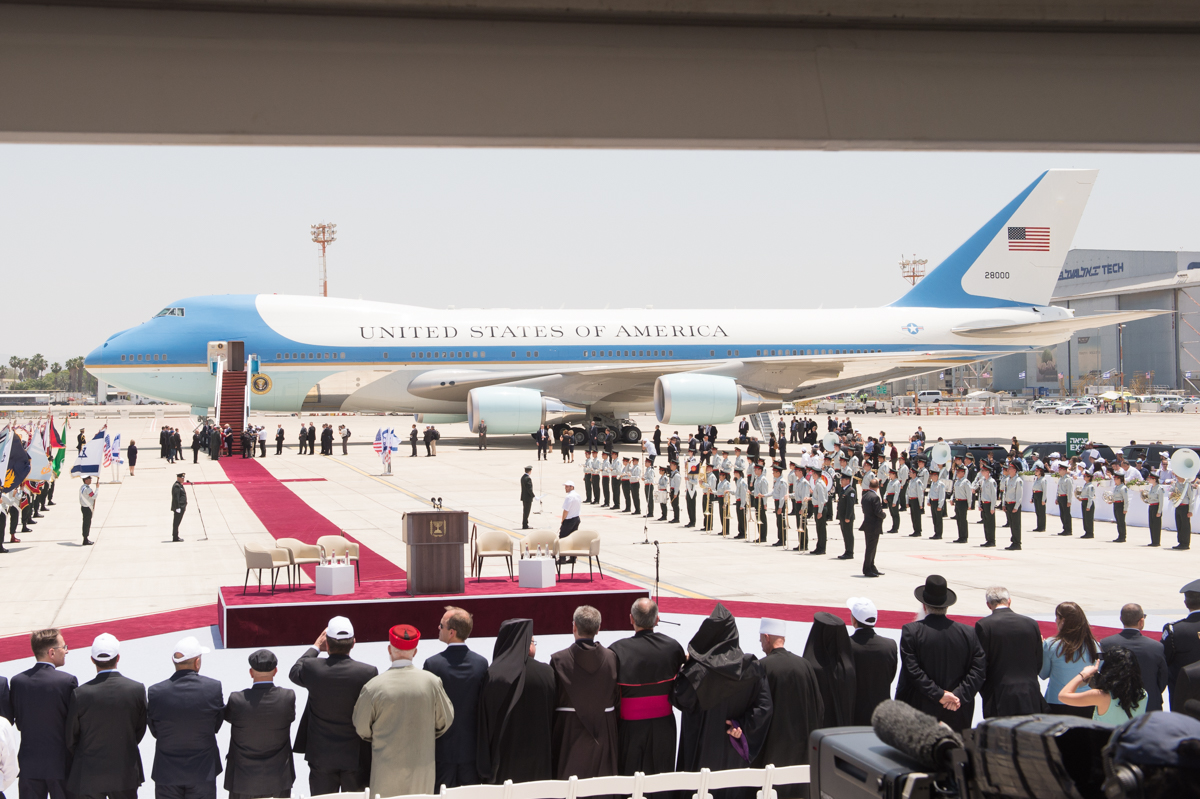 President Donald Trump and First Lady Melania Trump receive a red carpet welcome on their arrival to Ben Gurion International Airport, Monday, May 22, 2017, in Tel Aviv, Israel. (Official White House Photo by Andrea Hanks)